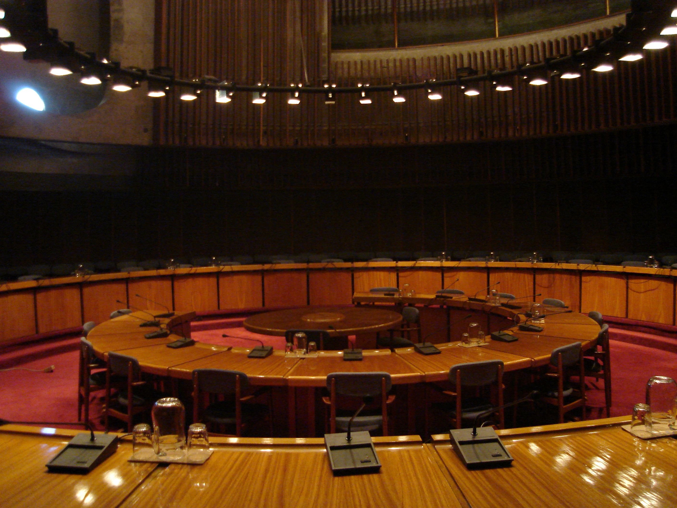 CEPAL headquarters in Santiago, Chile.